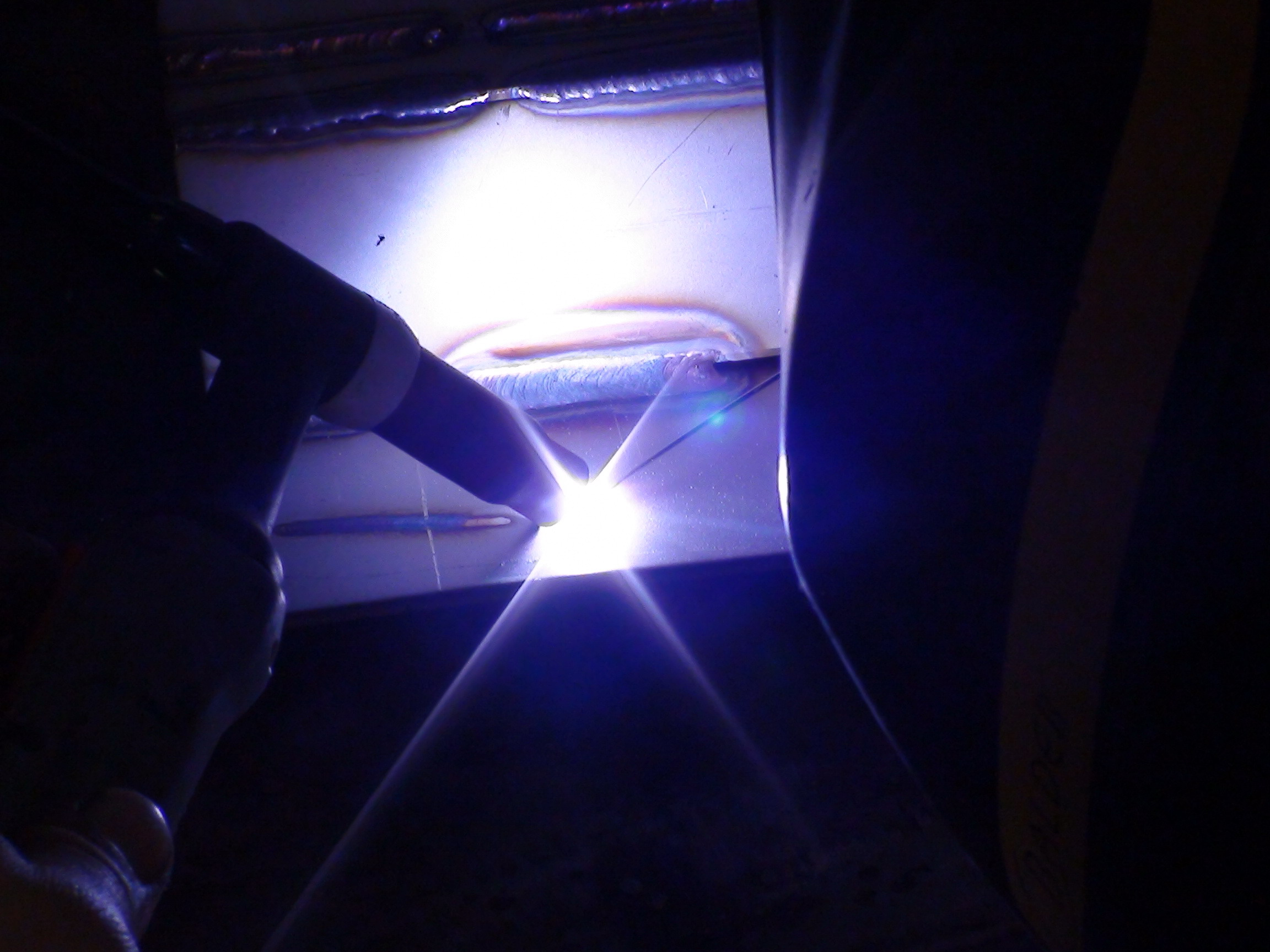 Gas tungsten arc welding.